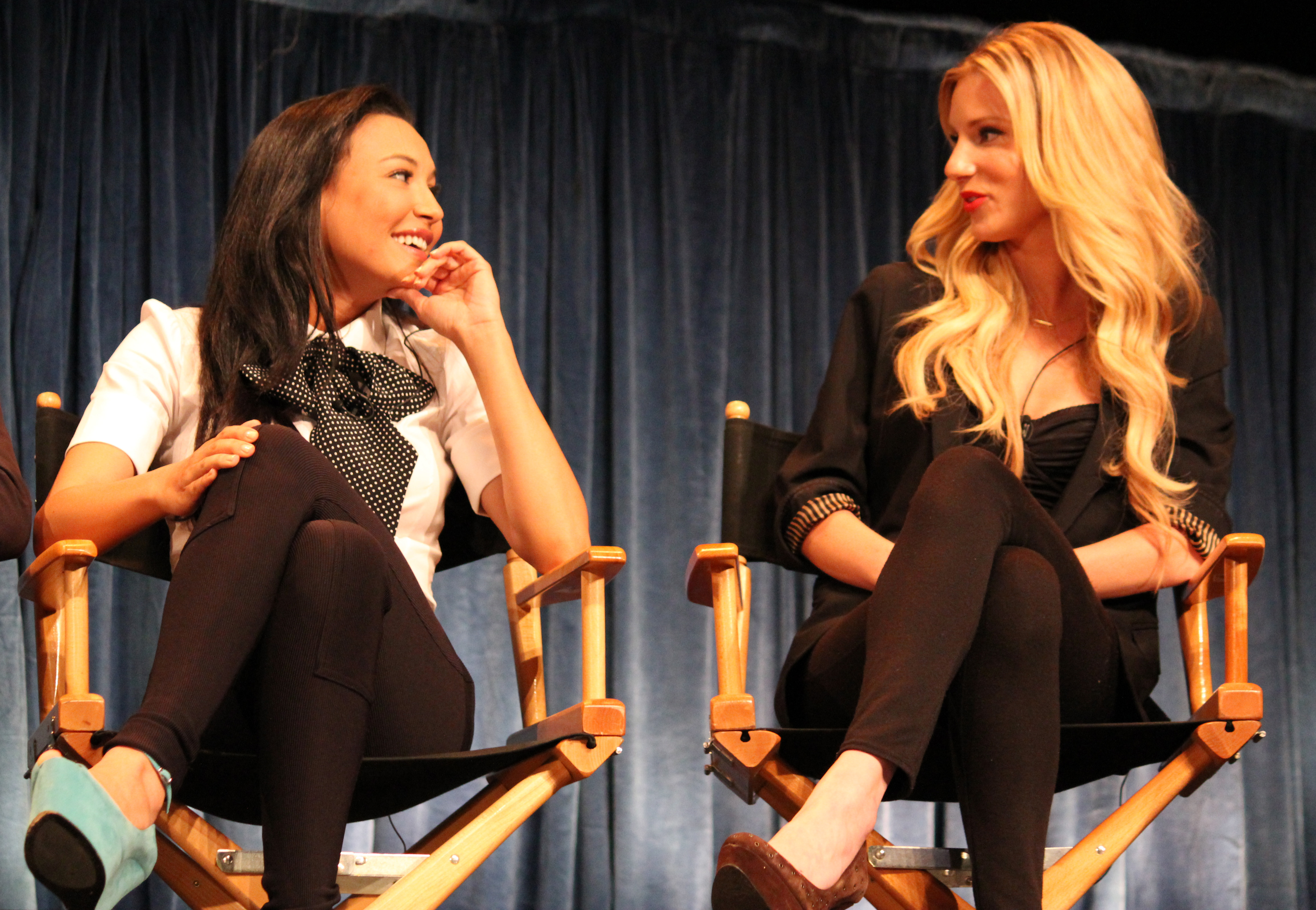 Naya Rivera (left) and Heather Morris at the Paley Festival 2011 panel on Glee